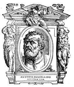 Illustratio from "Le Vite" by Giorgio Vasari, edition of 1568. For the artist portrayed see filename